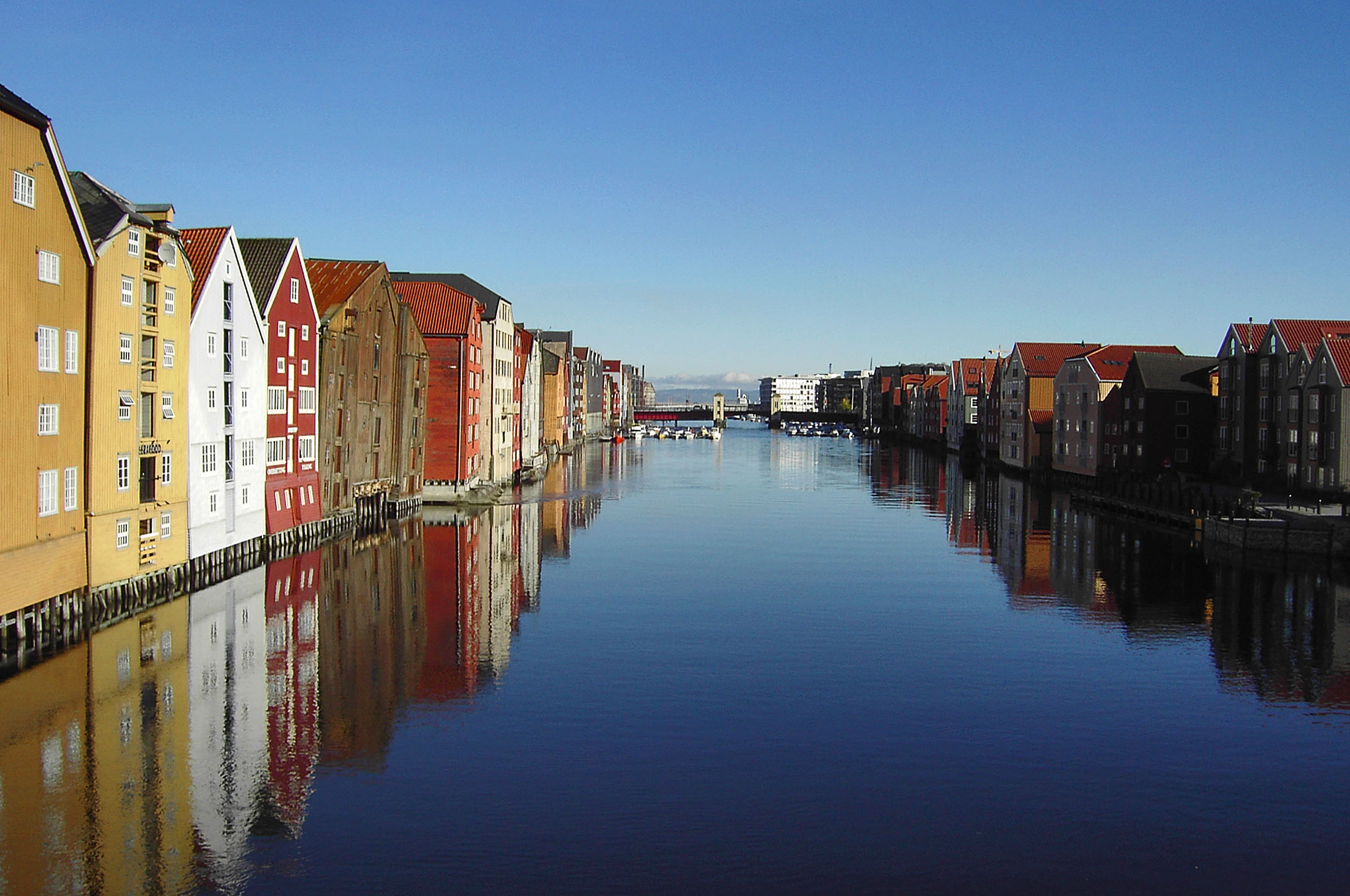 Straightened and cropped version of Image:Trondheim, Norwegen, Speicherhäuser 2005.jpg. Also corrected the slight overexposure.